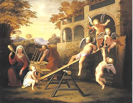 The Christ Child on a "Swing" (schaukel; may also be translated as "rocking"), 1850